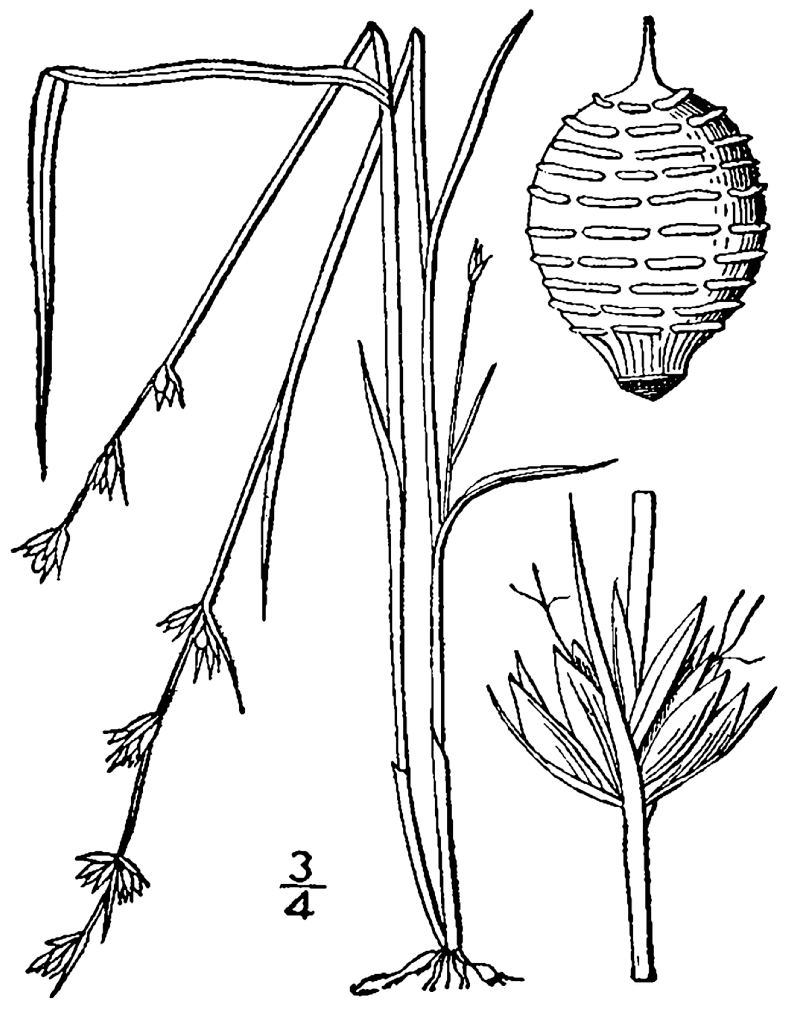 Scleria verticillata Muhl. ex Willd. - low nutrush